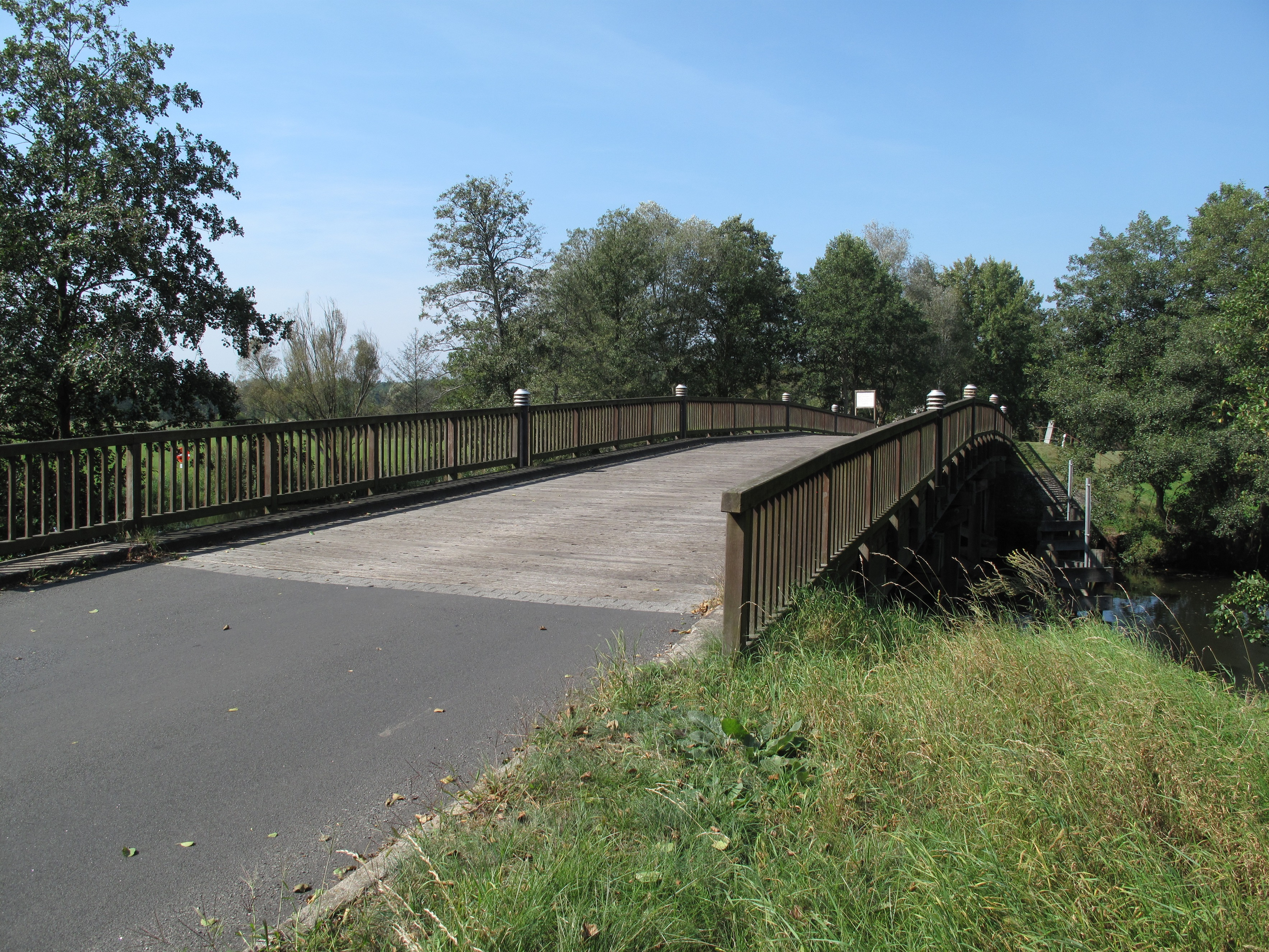 The „Spreebrücke Werder“ is a street-, bike- and footbridge in the village Werder, a part of the municipality Tauche in the District Oder-Spree, Brandenburg, Germany. The pile bridge was built in 1991 and spans the river Spree. To conserve the landscape image it was built entirely from wood. The bridge is part of the Spreeradweg (Spree-cycling-route).